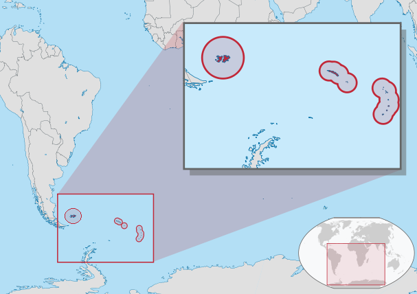 Location of the Falkland Islands, South Georgia and South Sandwich Islands, whose sovereignty are disputed between Argentina and the United Kingdom.